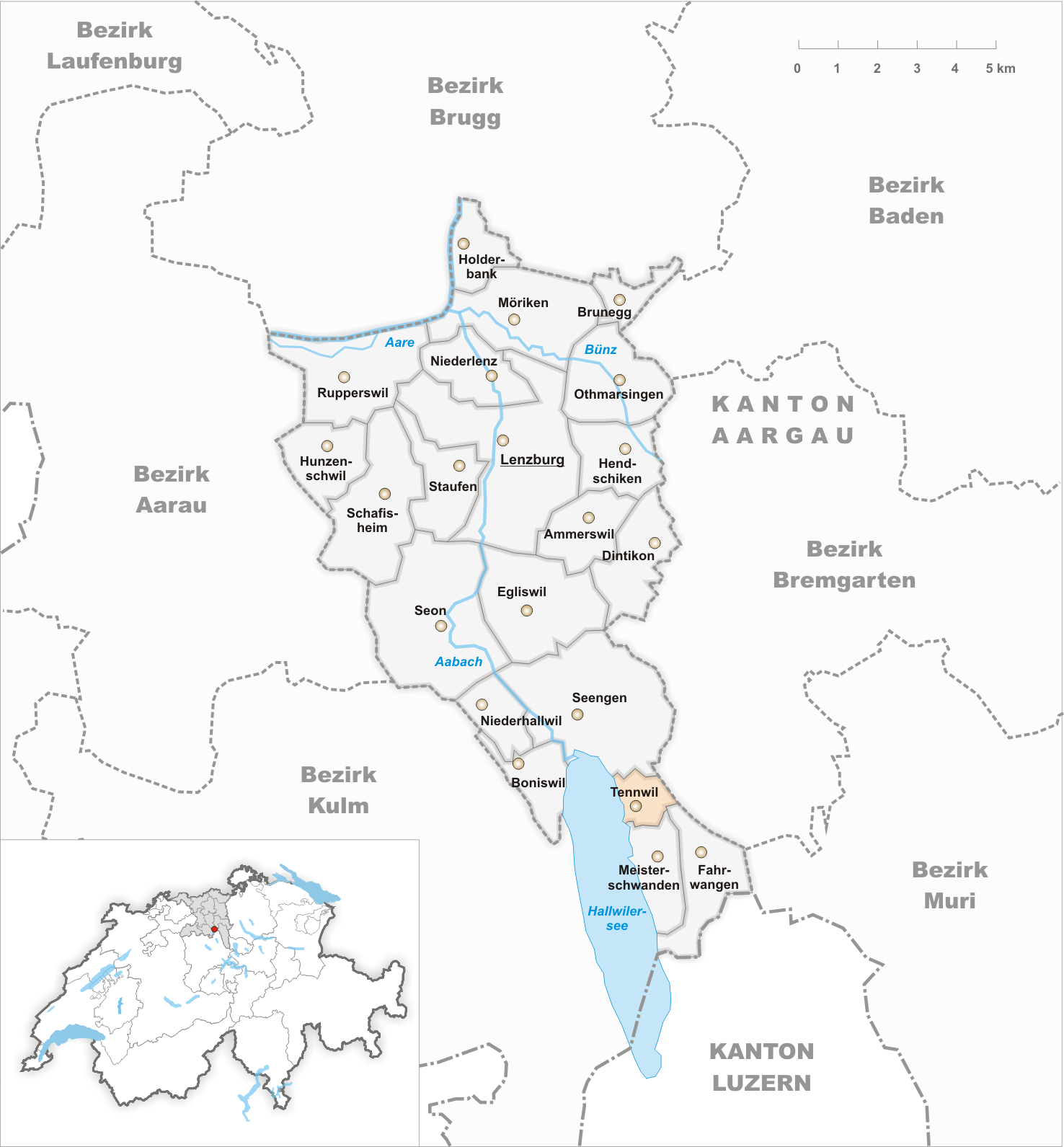 Municipality Tennwil